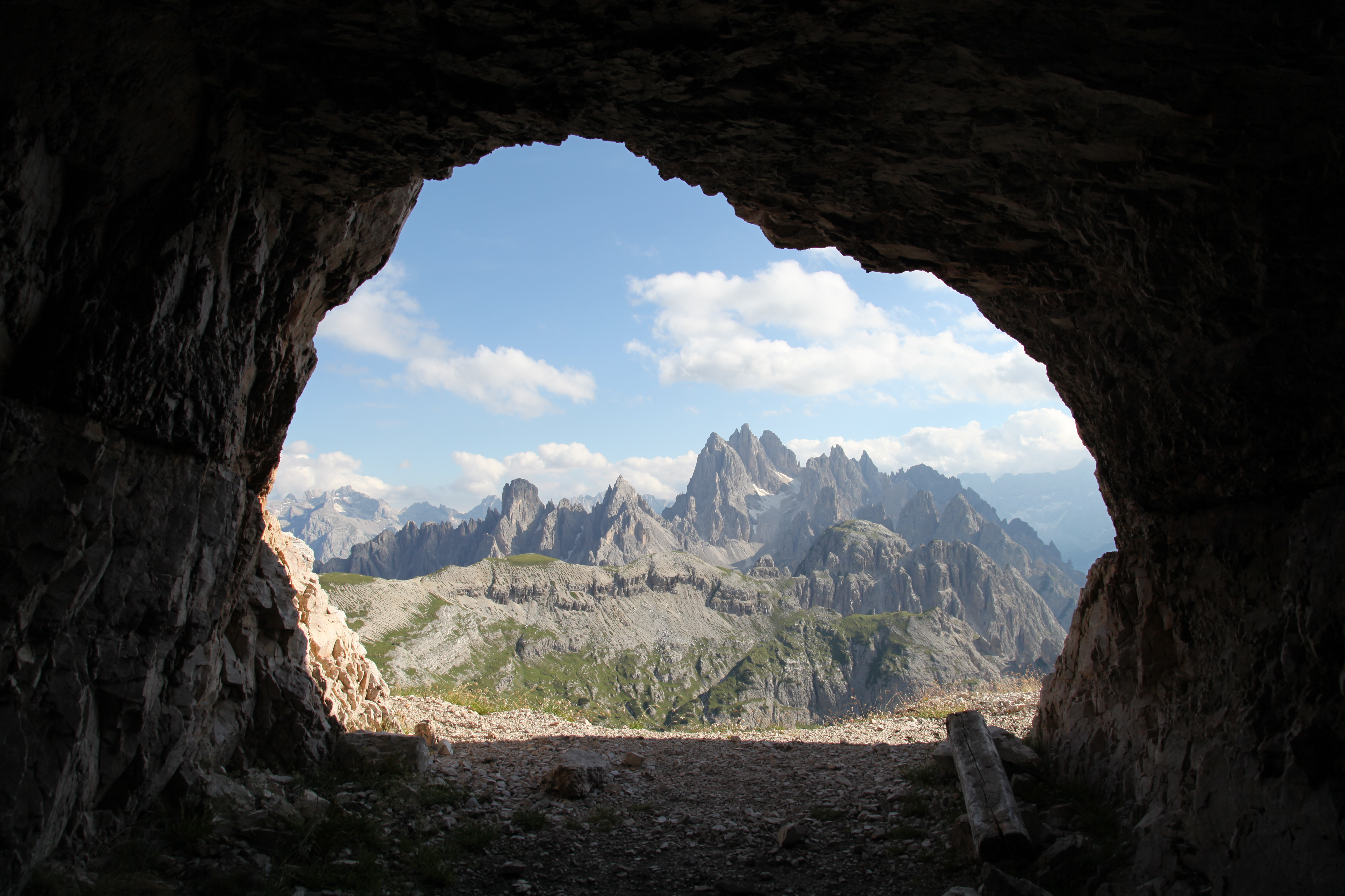 Photo taken from inside a cave that you can find if you walk up the mountain from the parking place at the end of the road at Tre Cime in the Italian Dolomites.